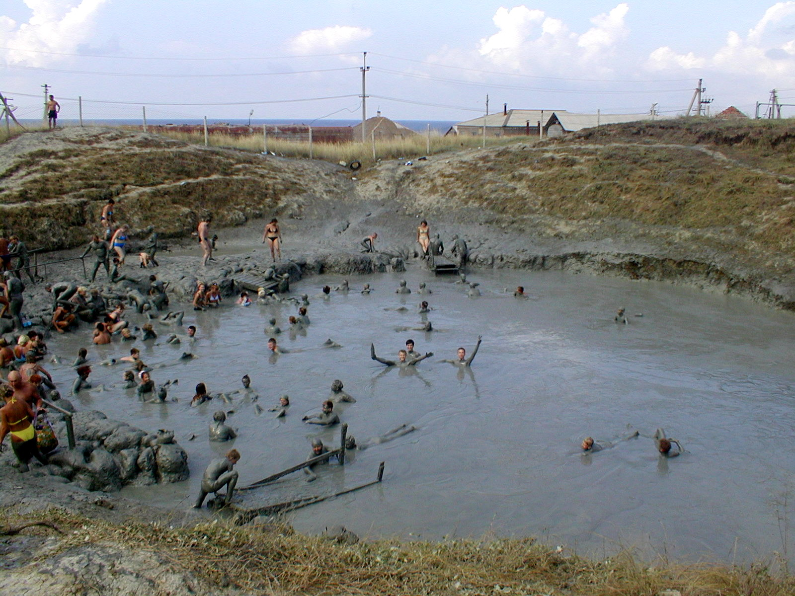 Mud volcano Tizdar. Za Rodinu village, Krasnodar region. Cloze to Azov Sea.